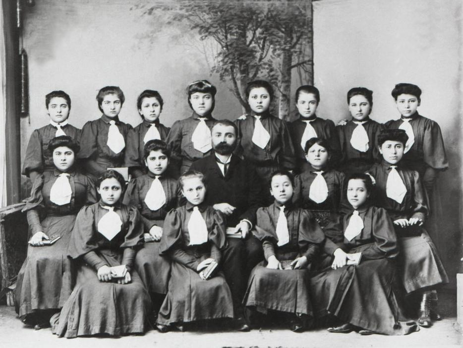 Pontian Greek Girl students of Trebizond (modern Trabzon). Upright second left: Valentini Theofylaktou.